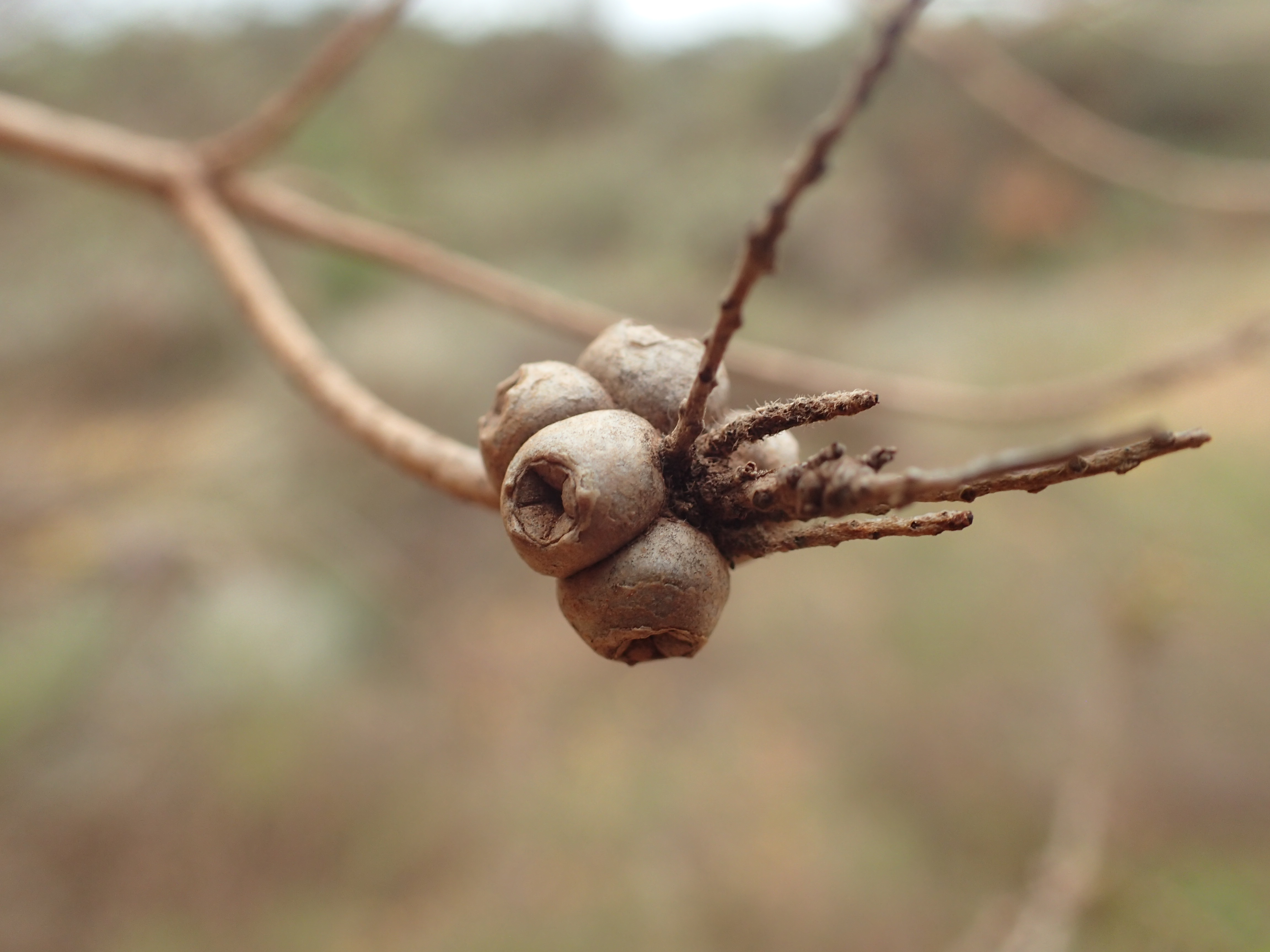 Fruit of Melaleuca beardii